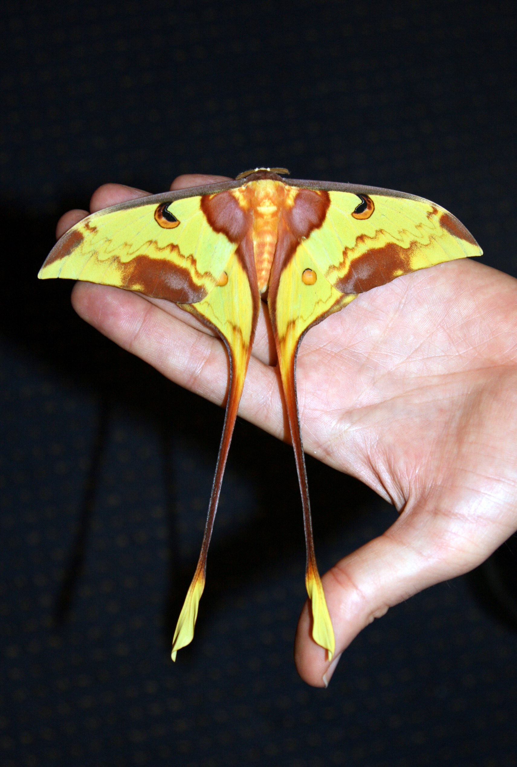 Malaysia, Fraser's Hill March 2009